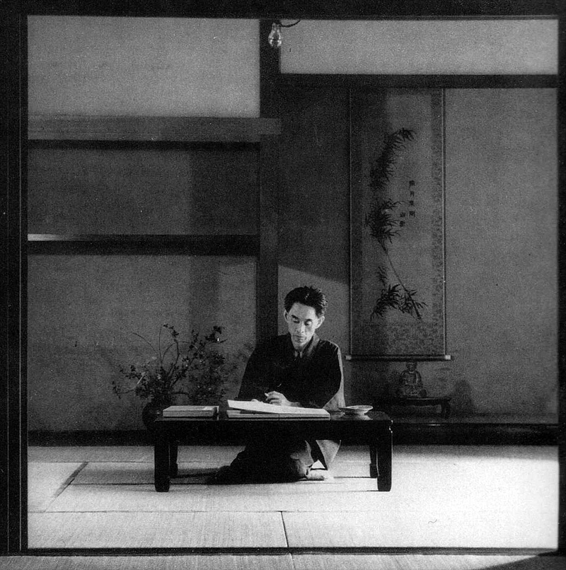 Kawabata at work at his house in Nagatani of Kamakura